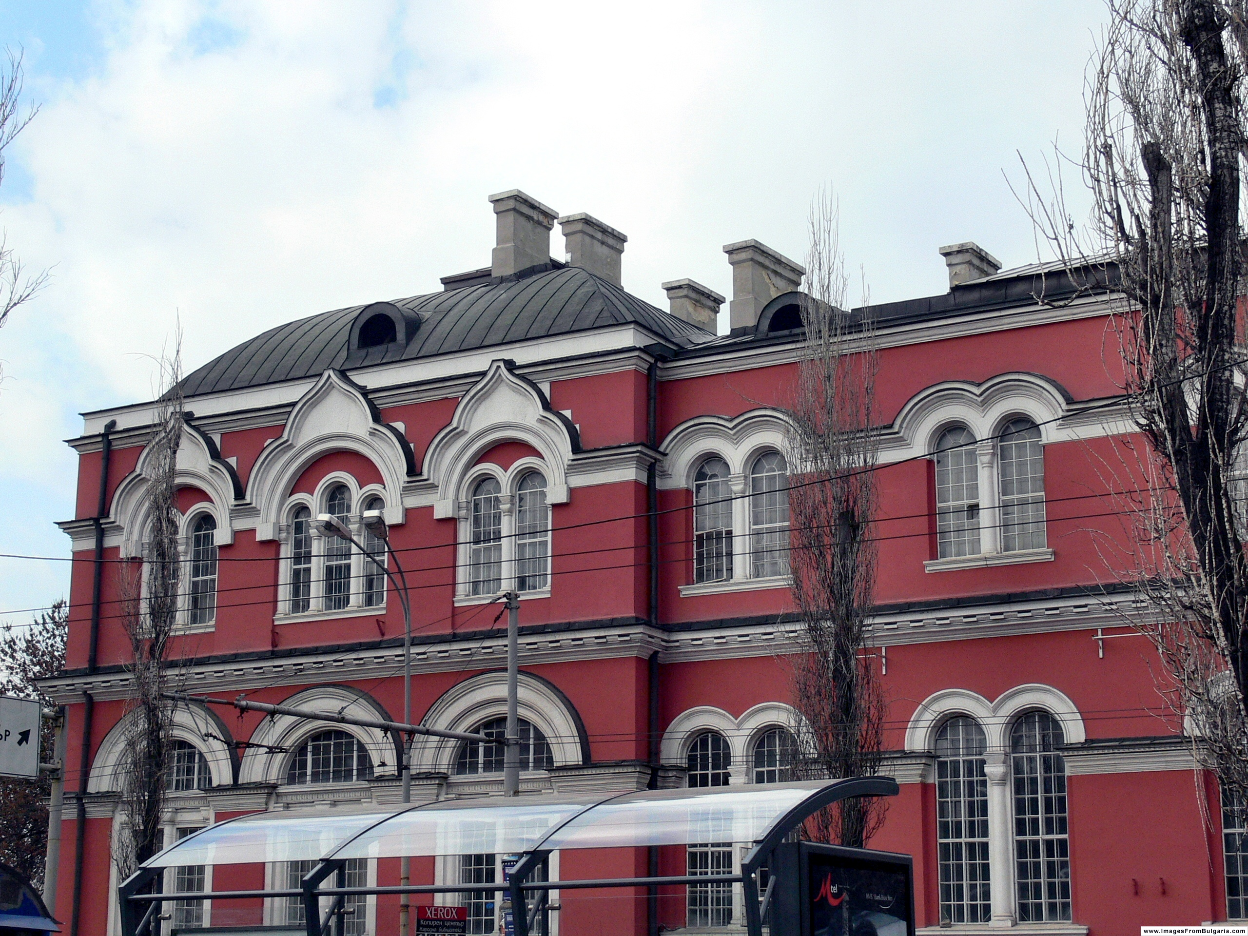 National Art Academy, Sofia, Bulgaria.